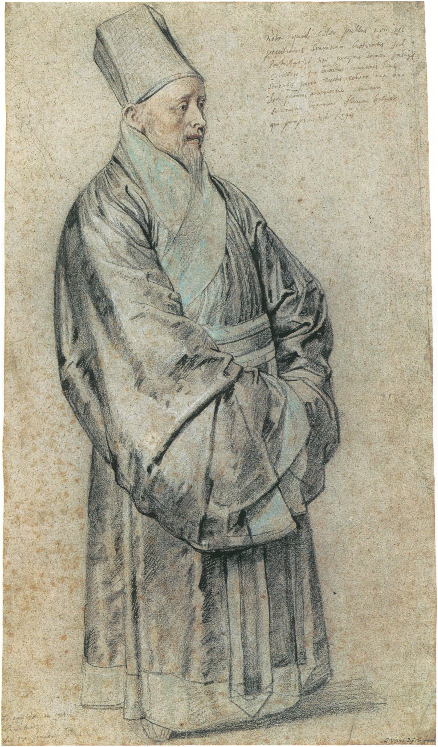 Peter Paul Rubens made this drawing of Nicolas Trigault in a Chinese costume when the Jesuit missionary to China was in Antwerp